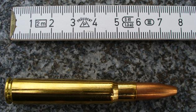 sporting round 8x57mm IS